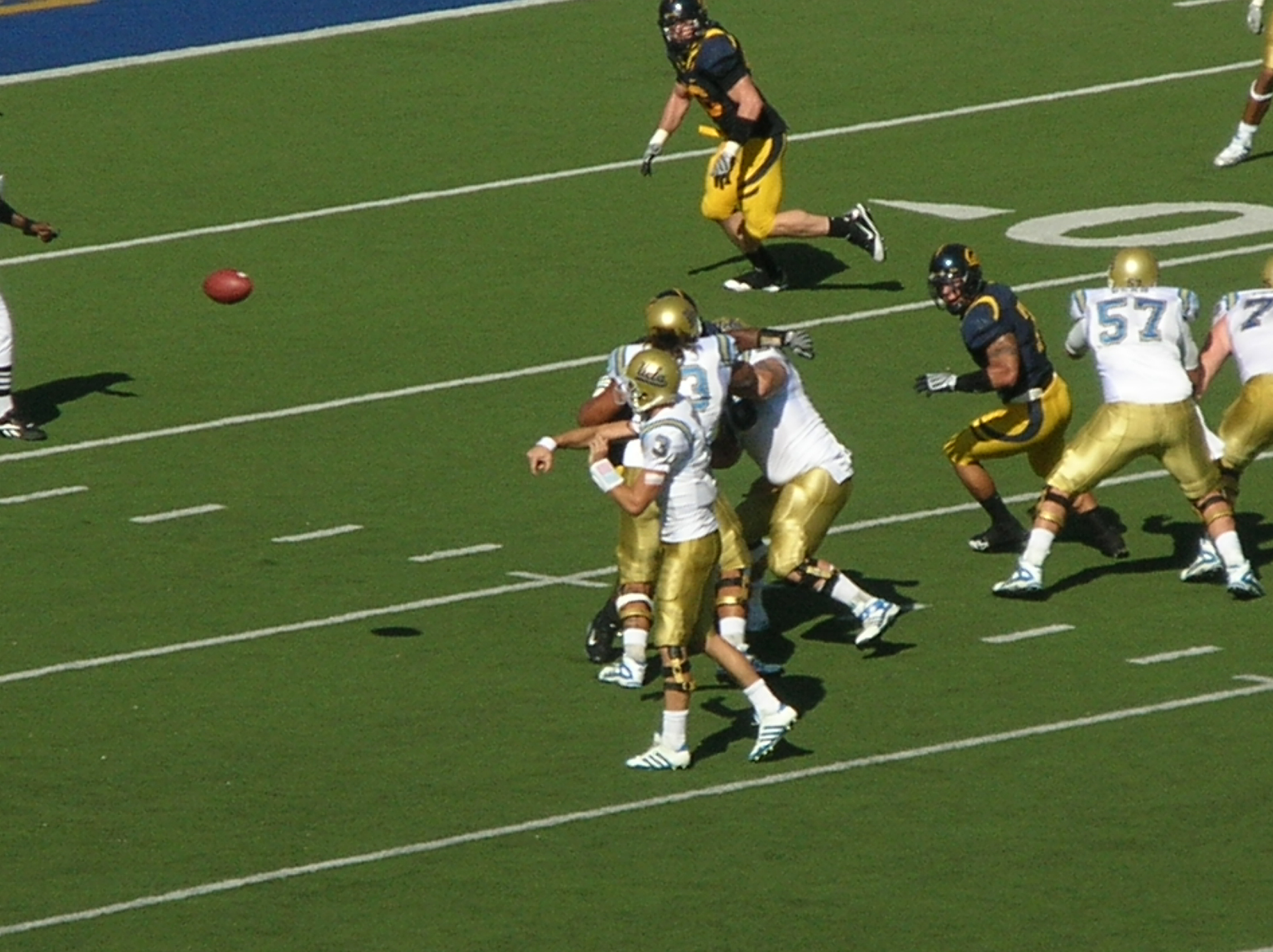 UCLA Bruins quarterback junior Kevin Craft (#3) passes at a road game at Cal. The Golden Bears won 41-20.